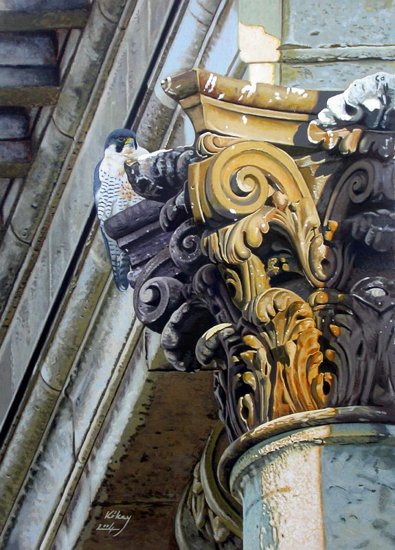 The Peregrine Falcon (Falco peregrinus), also known simply as the Peregrine.